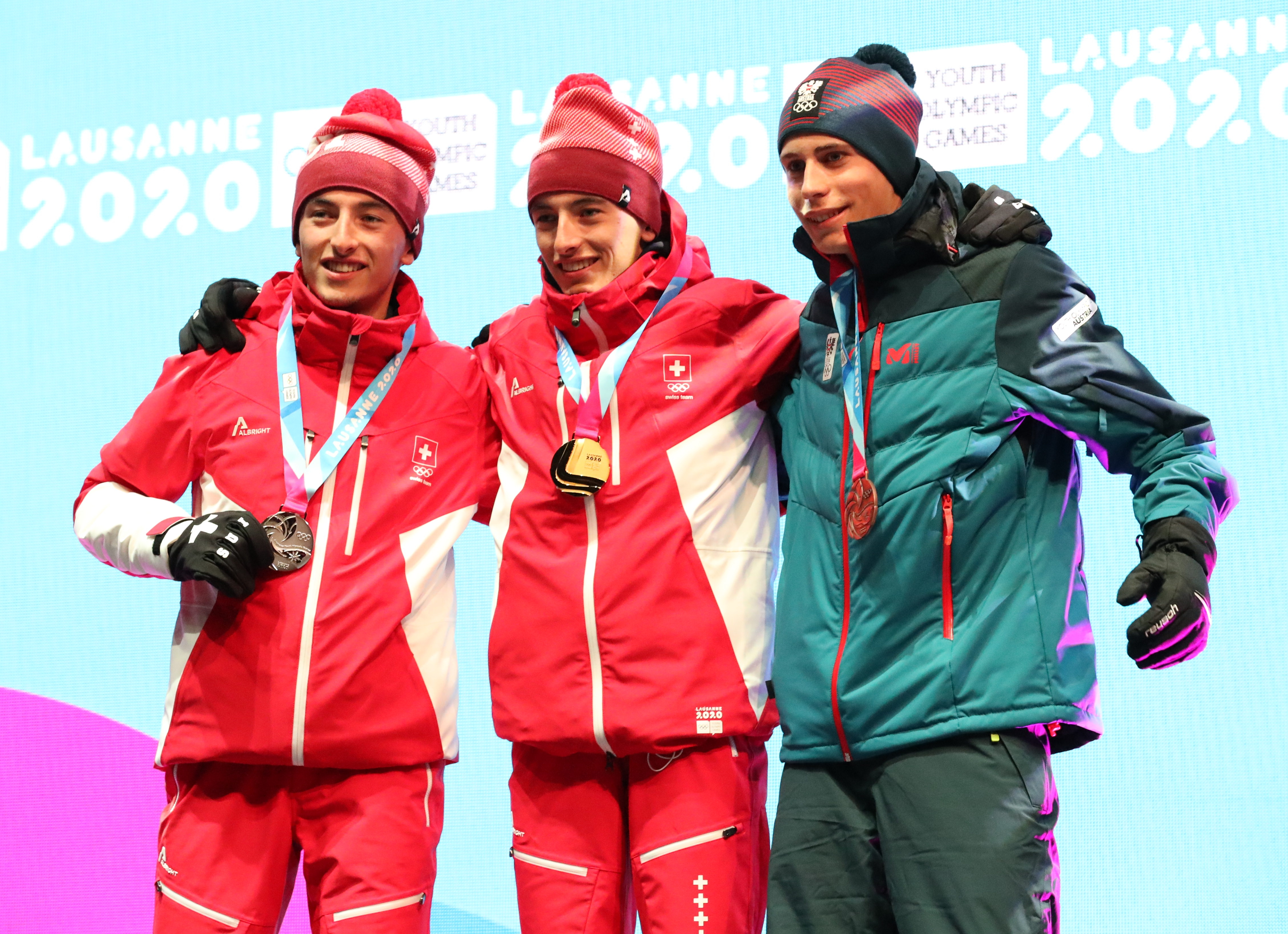 Medal Ceremony Day 1, 2020 Winter Youth Olympics in Lausanne